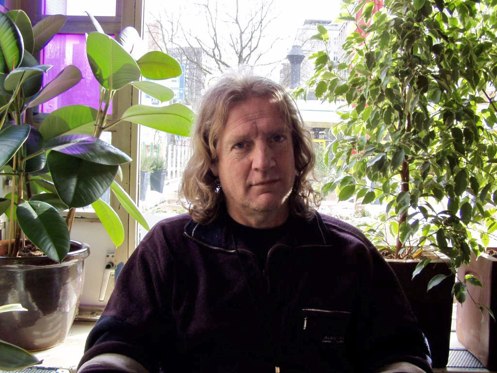 Alfred Vierling in the Hazzebaz bar, Rotterdam, The Netherlands.